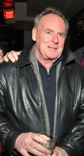 Canadian actor Peter MacNeill in Toronto